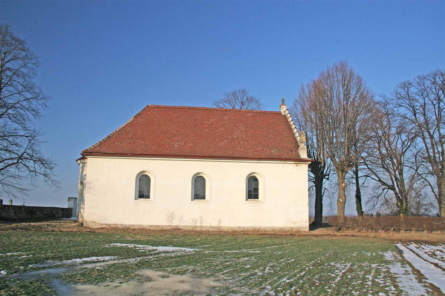 Protestant church in Libenice, Czech Republic.